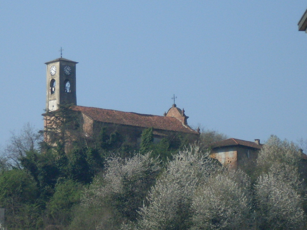 View of St. Secondo Church.